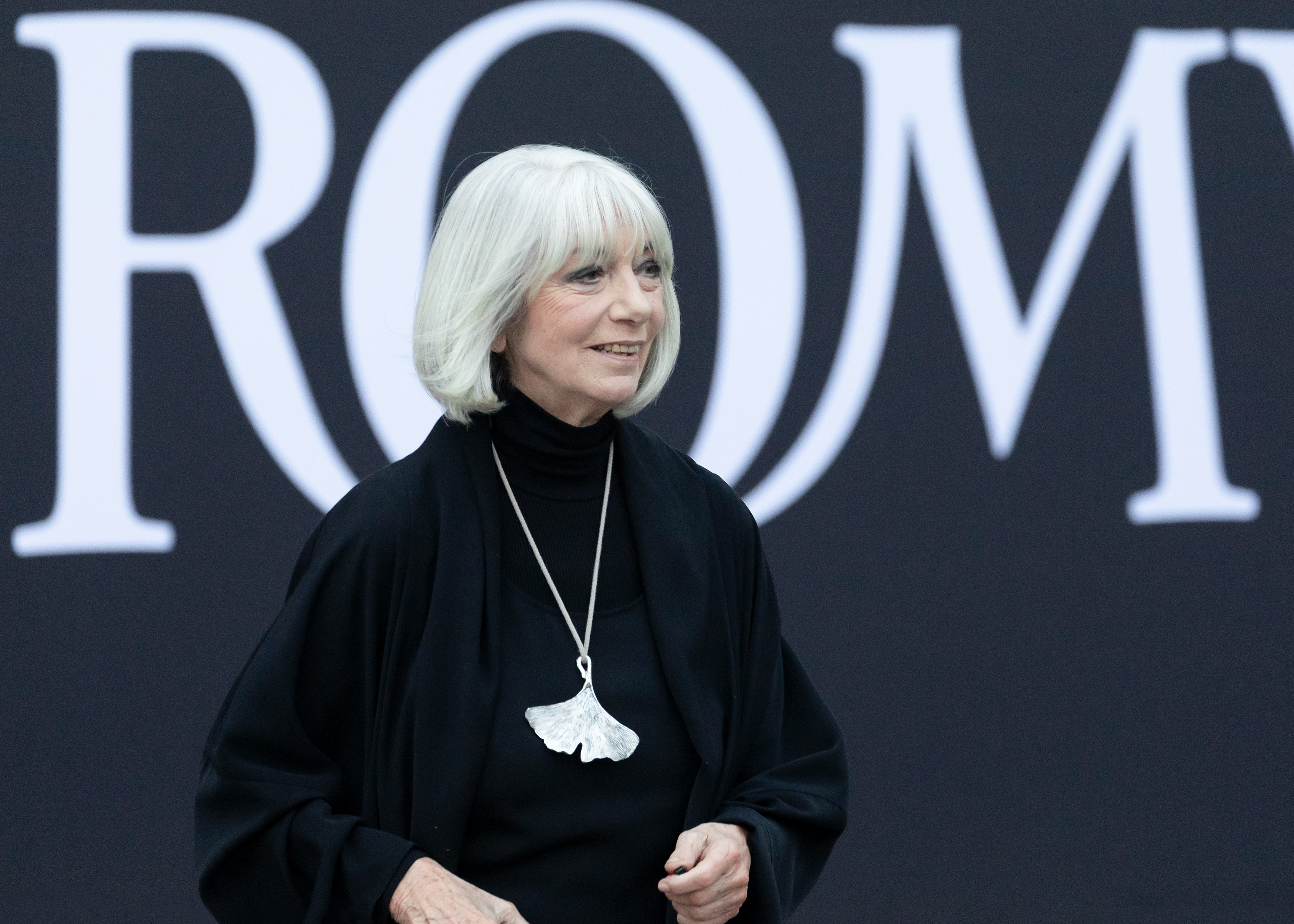 Erika Pluhar on the red carpet of the Romy TV awards 2019 at Hofburg Palace in Vienna, Austria.